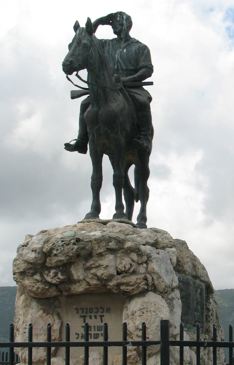 Alexander Zaid Monument (1938) by David Polus, near Bet She'arim national park.